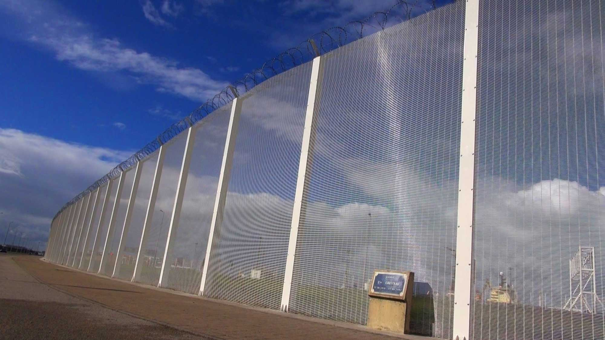 The fence surrounding the port of Calais next to "The Jungle" in Calais, France. (VOA/Nicolas Pinault)